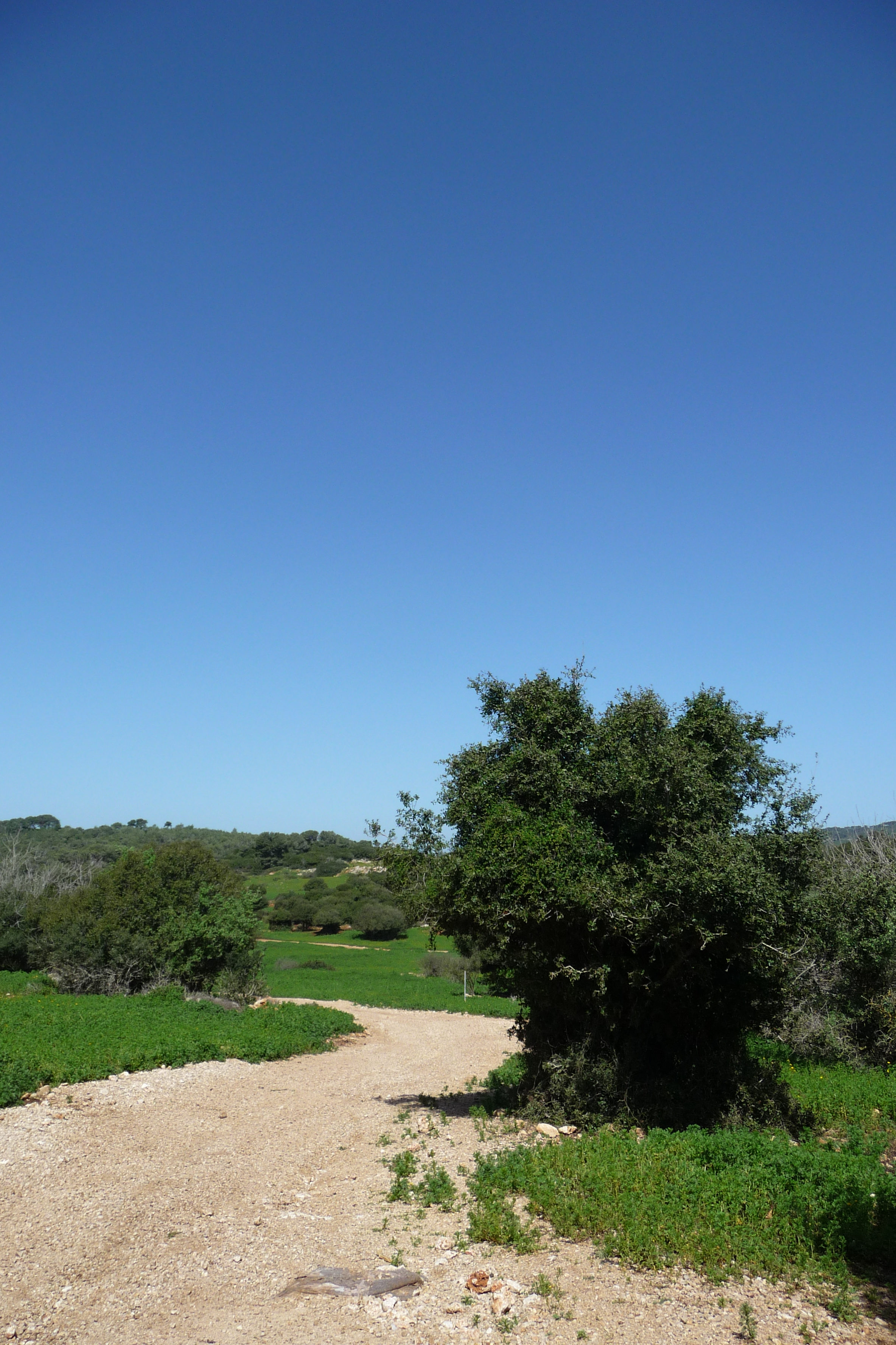 Beit Oren is a kibbutz in northern Israel. It falls under the jurisdiction of Hof HaCarmel Regional Council.